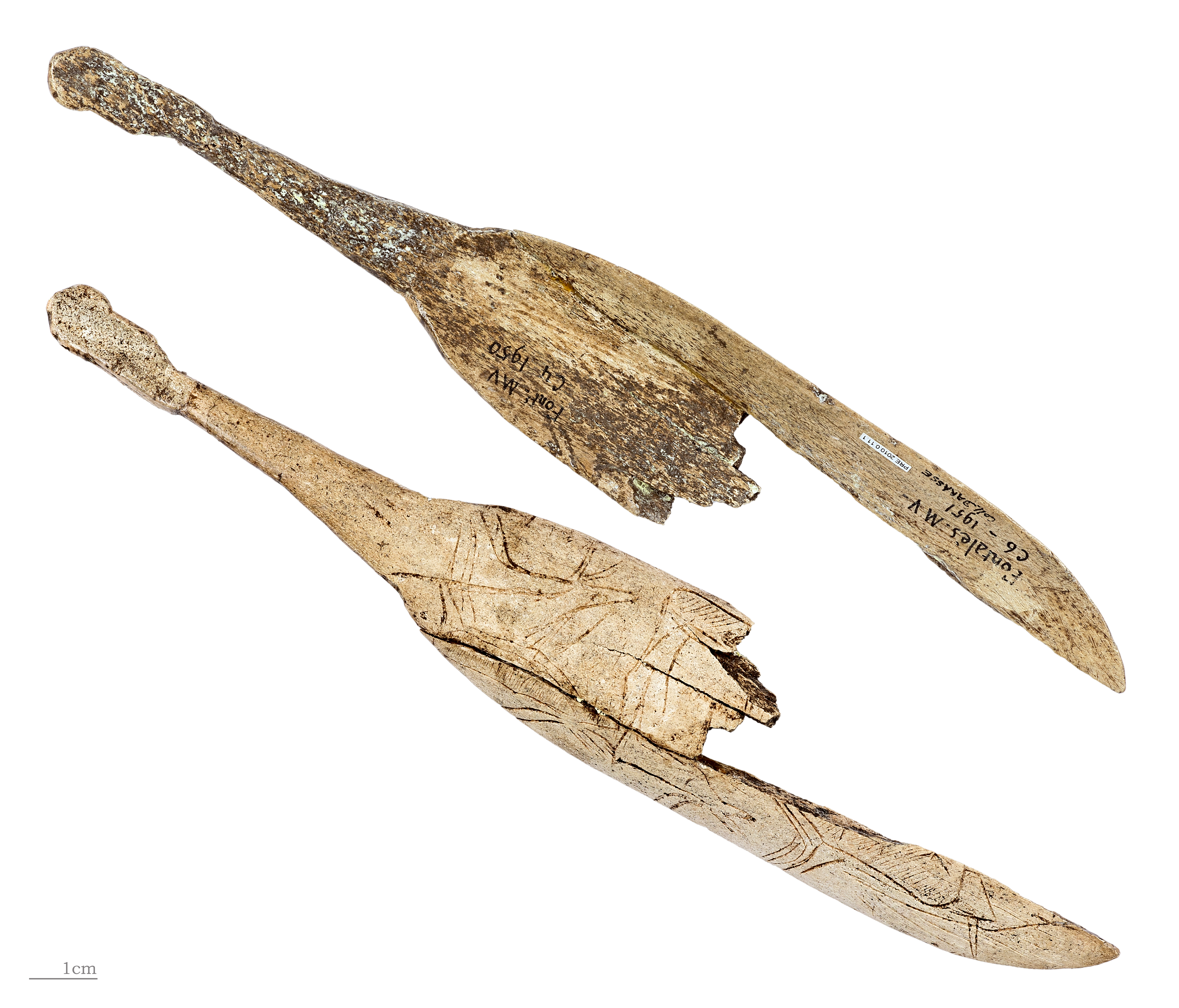 spoon engraved in reindeer antler. Satge: Upper Magdalenian (VI), between 13500 and 12000 BP Locality: Prehistoric site of Fontalès Saint-Antonin-Noble-Val, Tarn-et-Garonne – France. Excavation: Excavation and collection: Paul Darasse 1950